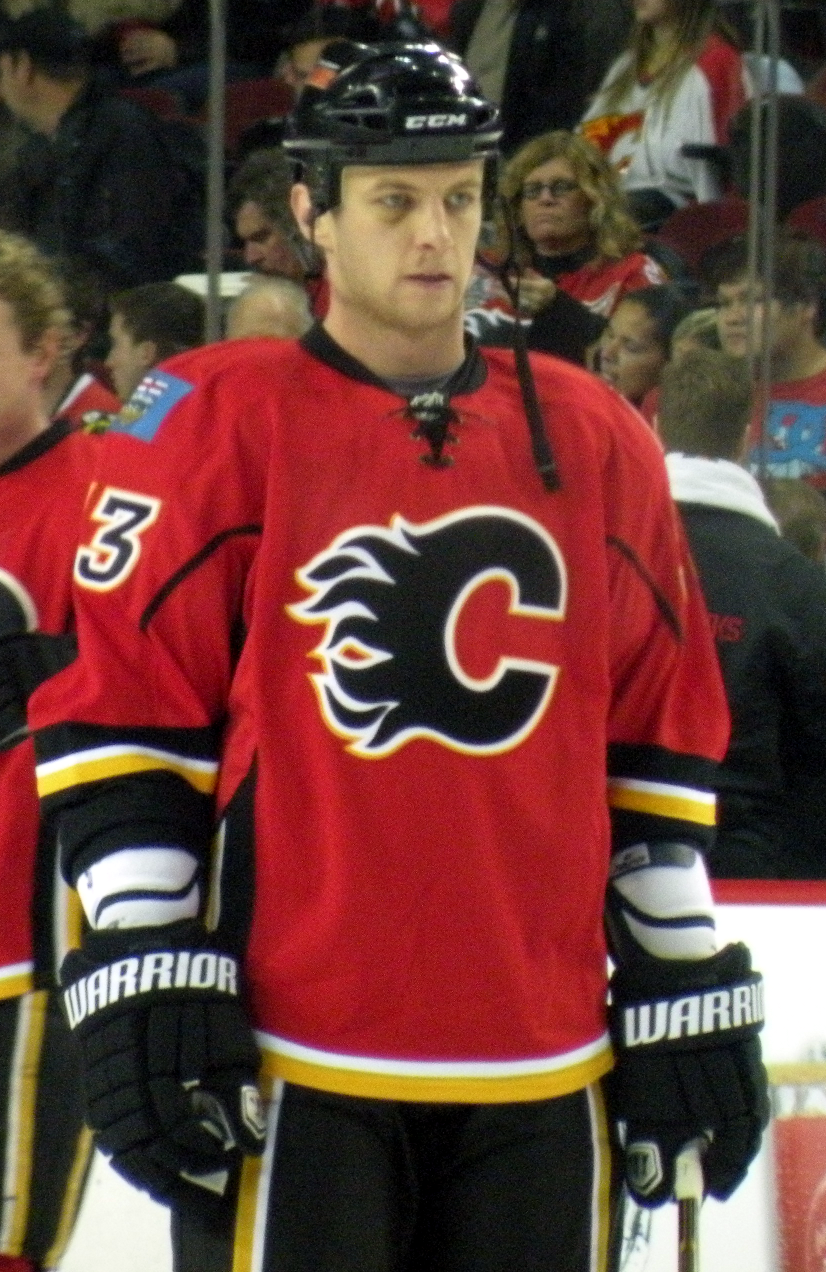 Calgary Flames defenceman Anton Babchuk prior to a National Hockey League game against the Chicago Blackhawks.